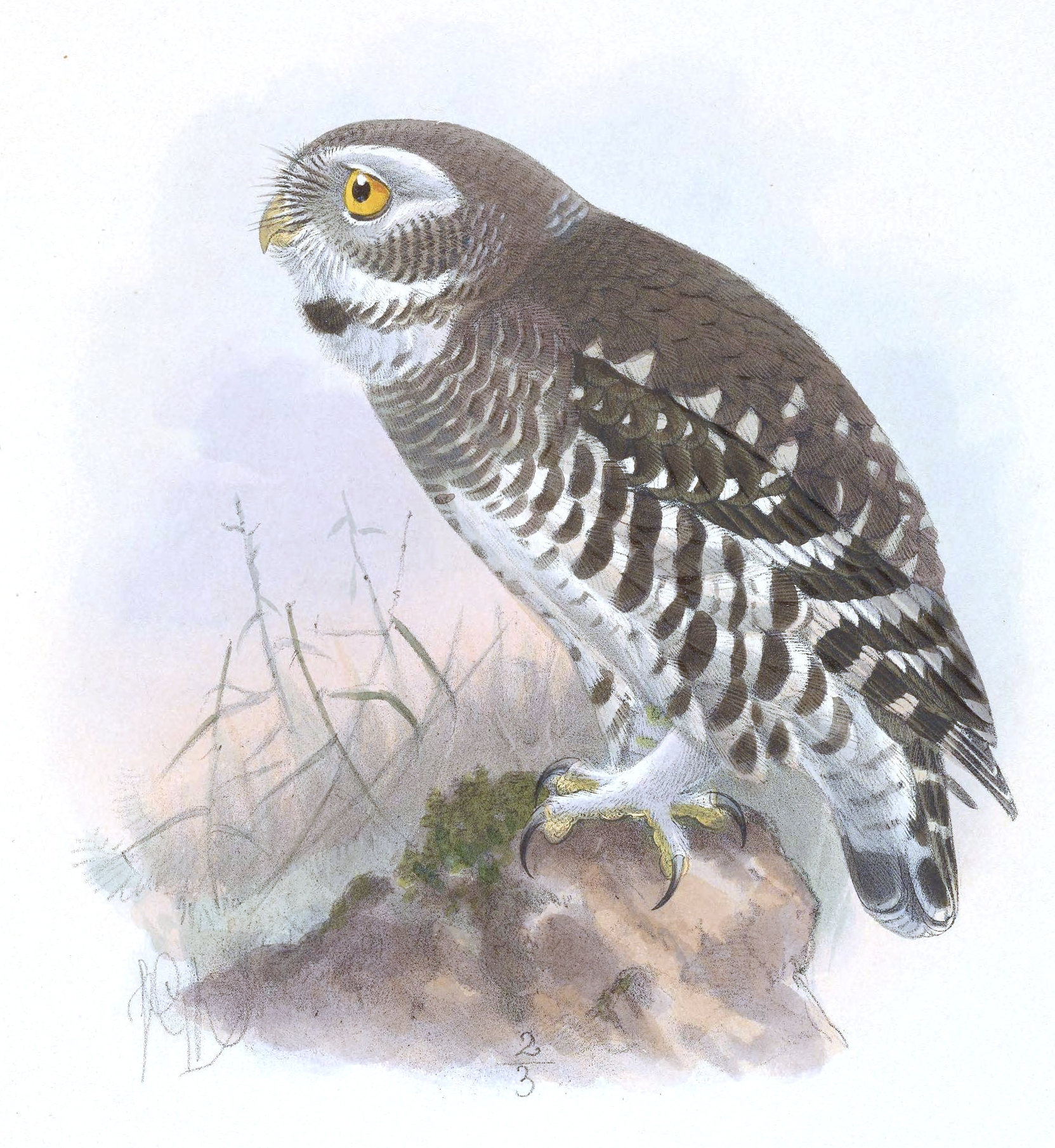 Forest Owlet from The Scientific Results of the Second Yarkand Mission, 1891 Until recently, the best illustration of the Forest Owlet was this one, which appeared in The Scientific Results of the Second Yarkard Mission, published in 1891. The illustration has several inaccuracies: the cheek patches are too dark and the breast is too barred; the belly, lower flanks, and undertail coverts should be completely white, not marked; the bands in the wing should be whiter; and the bill should be larger.